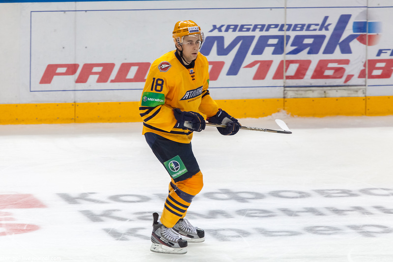 Atlant Moscow Oblast forward Igor Ignatushkin during KHL game Amur Khabarovsk—Atlant Moscow Oblast on September 5, 2012.